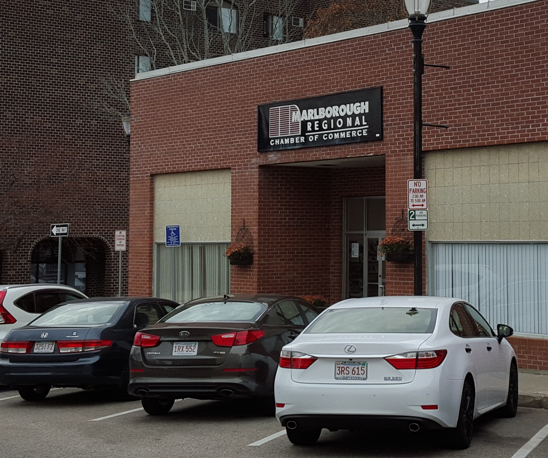 The Marlborough Regional Chamber Of Commerce in Marlborough, Massachusetts. Other information Cropped from the original.